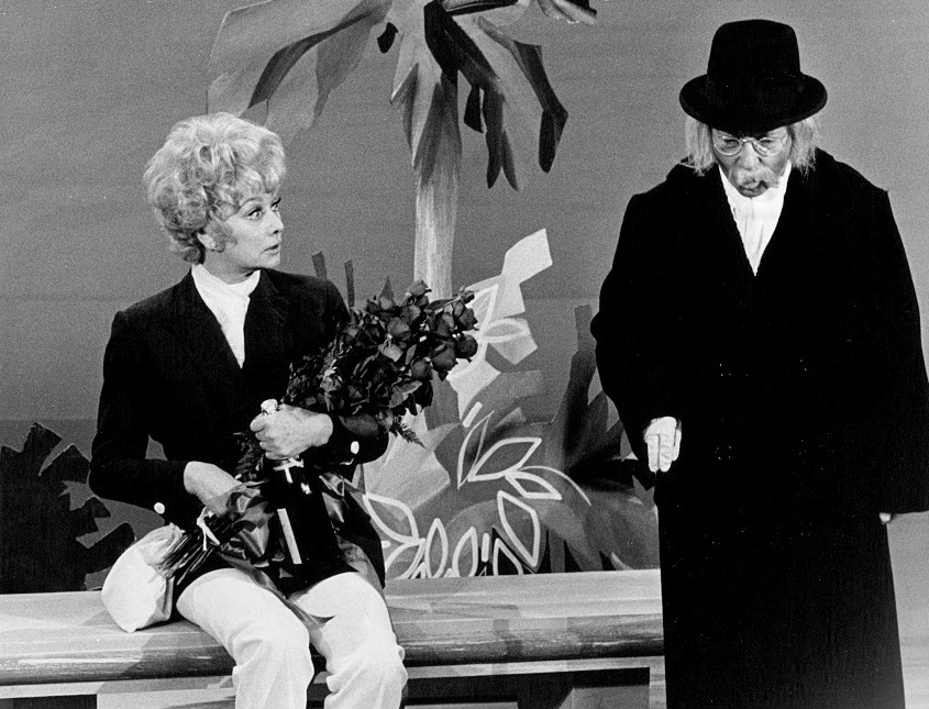 Photo of Lucille Ball and Arte Johnson. Johnson brings his Laugh-In character of "Tyrone F. Horneigh" to "The Glen Campbell Goodtime Hour". The character was regularly seen on "Rowan and Martin's Laugh-In" offering a Walnetto (candy) to "Gladys Ormphby" (Ruth Buzzi), who was seated on a park bench. Buzzi's character interpreted this as a pick-up line and her response was to hit Tyrone over the head with her purse.